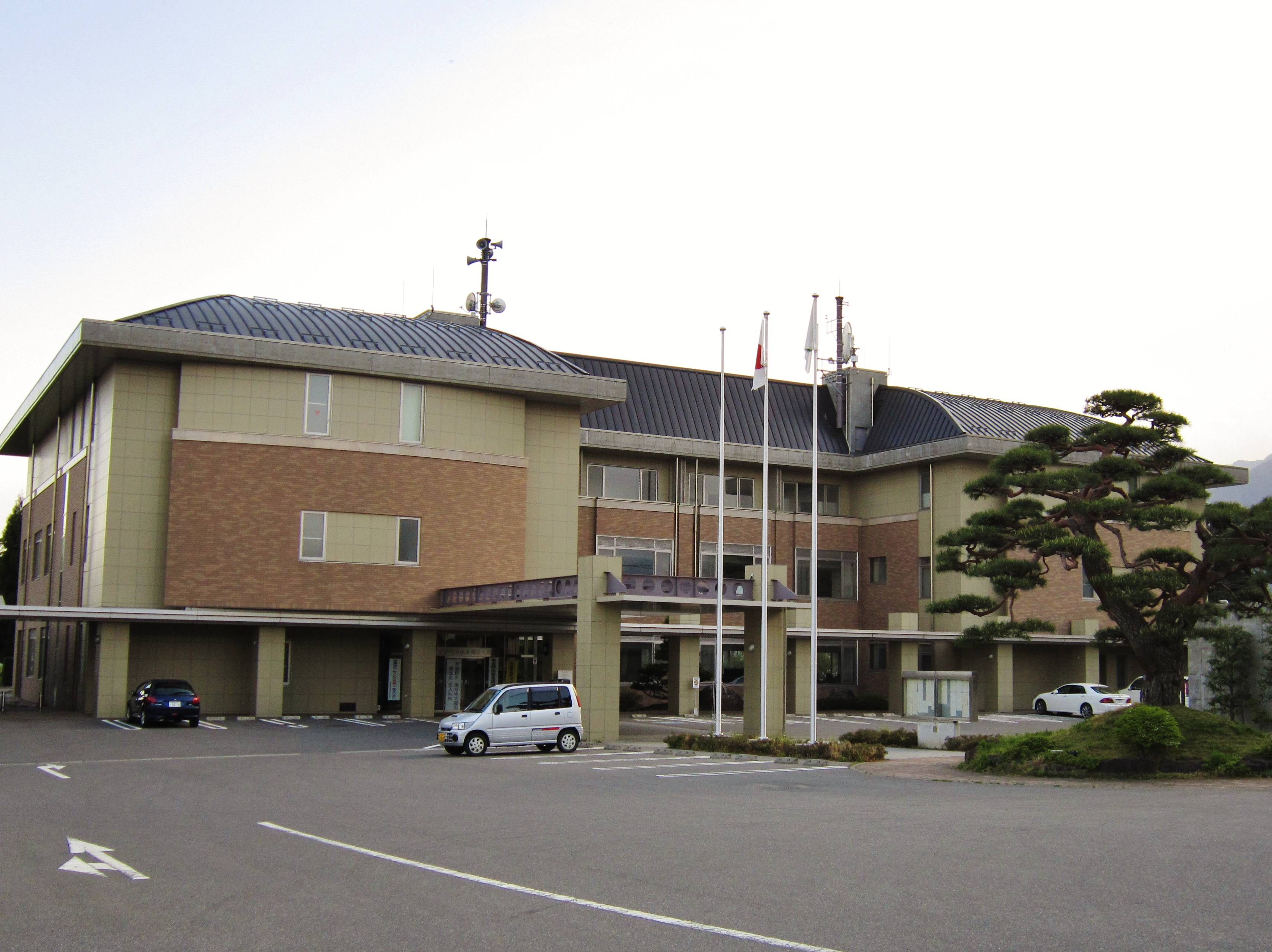 Azumino city Horigane branch office.